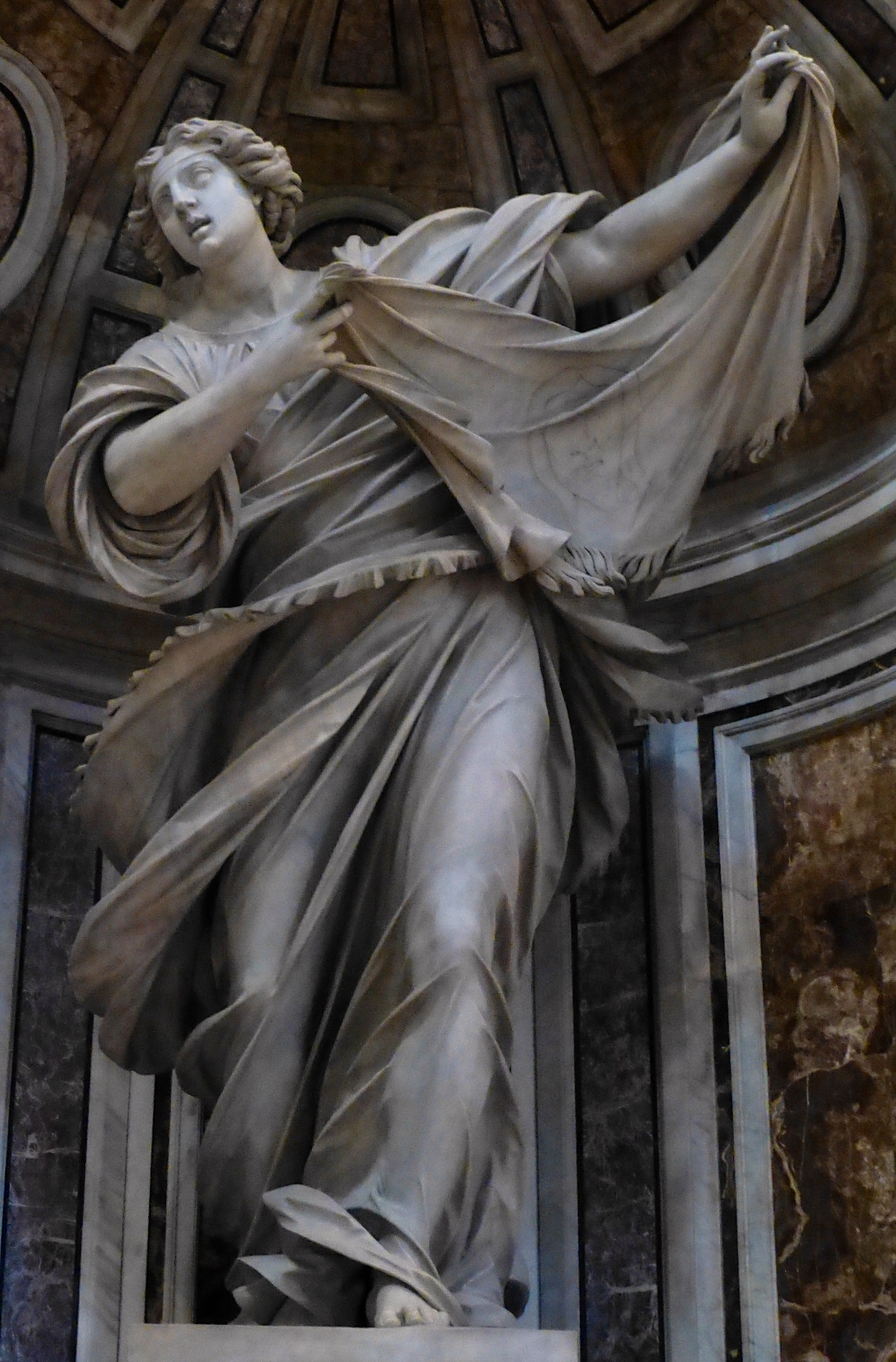 St. Veronica Statue, St. Peter's Basilica (Francesco Mochi)